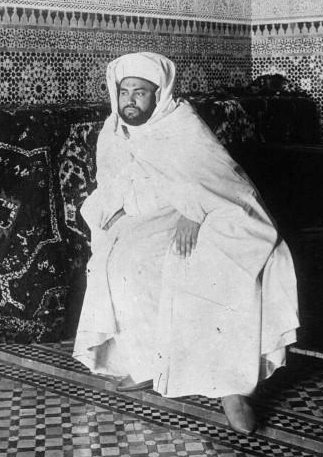 Mulay Yusef ben Hassan, Sultan of Morocco (1882-1927).